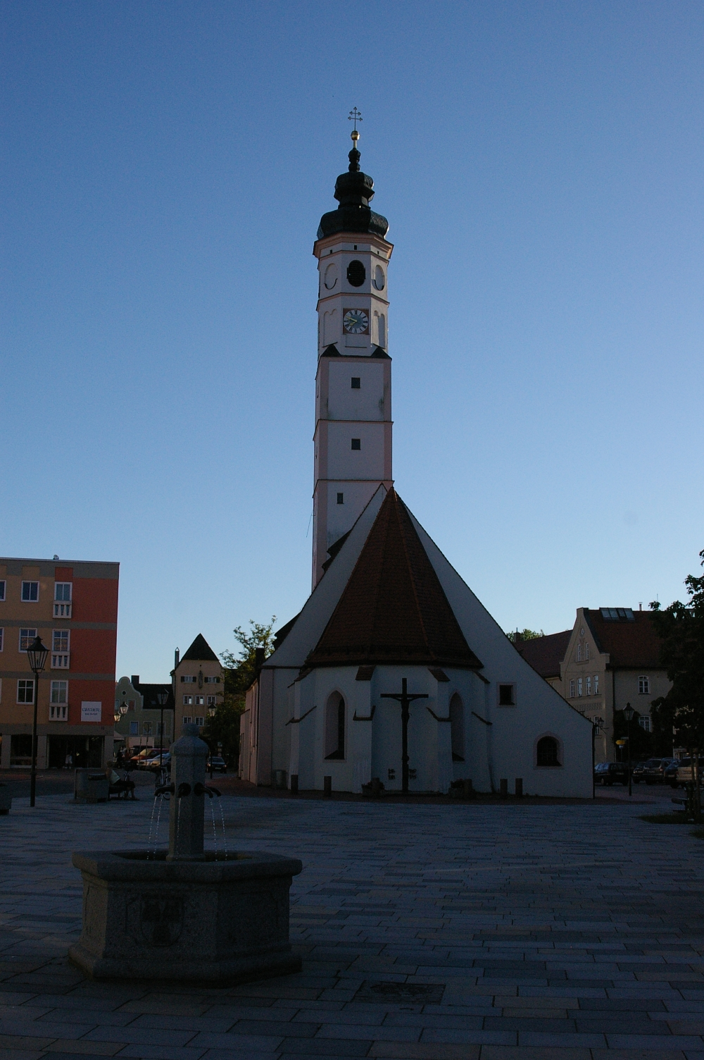 Dorfen, market square (Unterer Marktplatz) and St Vitus Church from east.